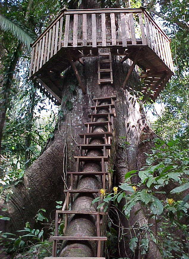 stairway to a ceiba roundwalk ceiba roundwalk